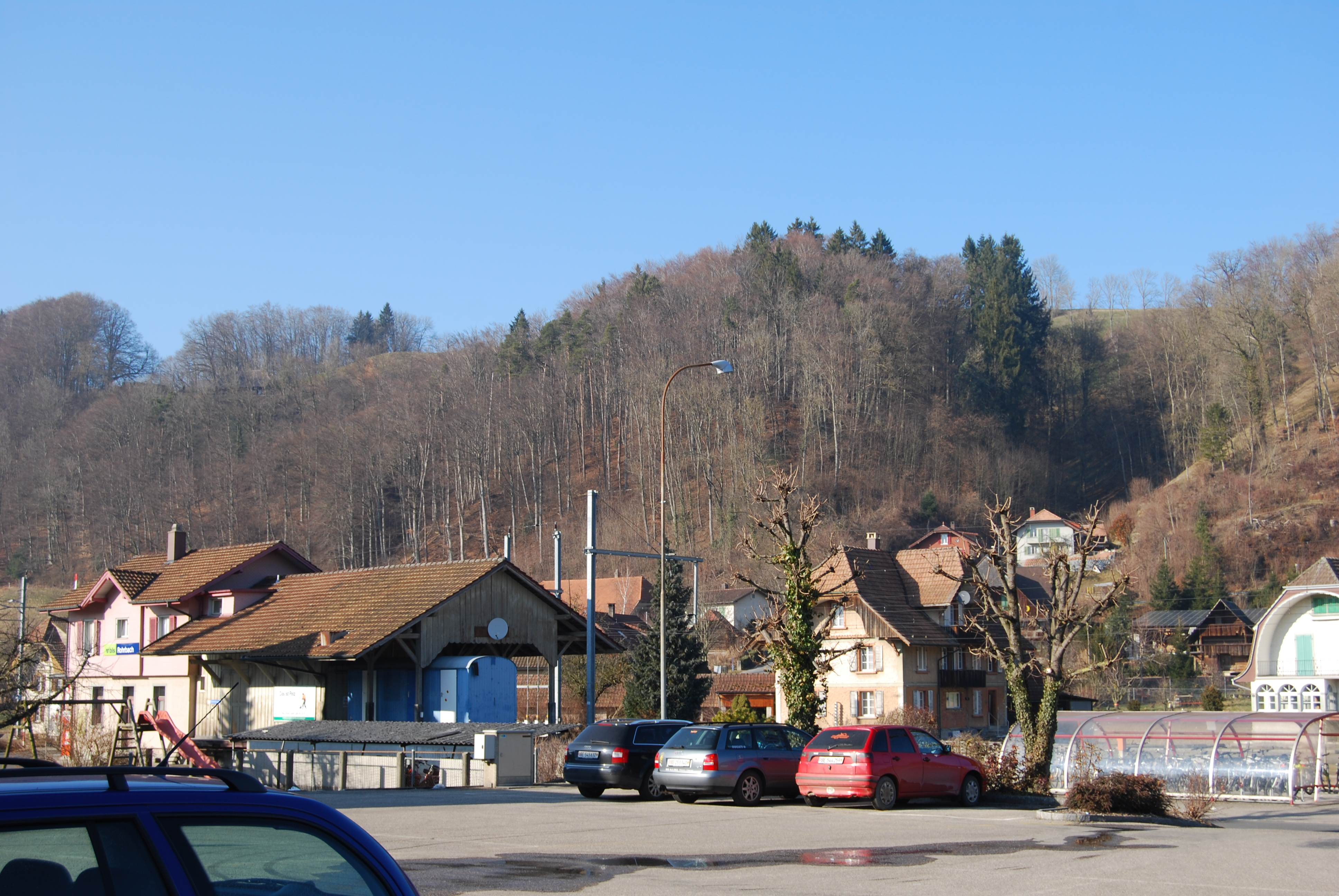 Train station of Rohrbach, canton of Bern, Switzerland